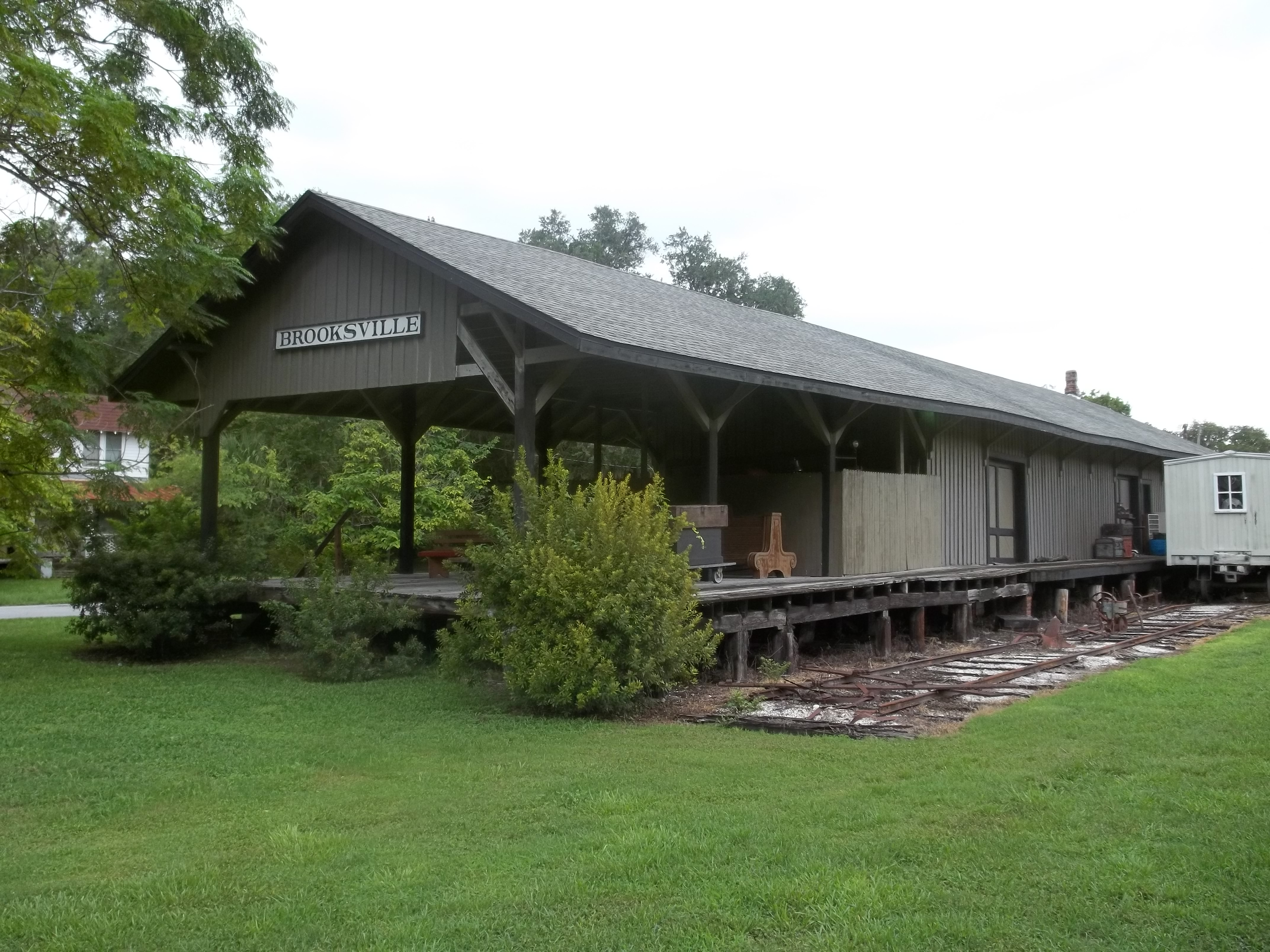 Brooksville, Florida: Old railroad station